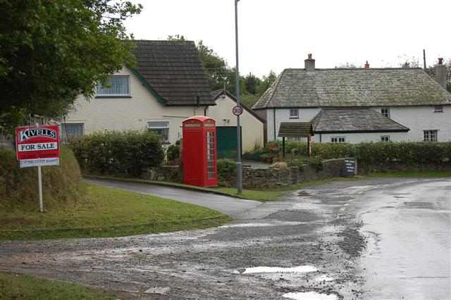 Stibb Village to the north of Bude.